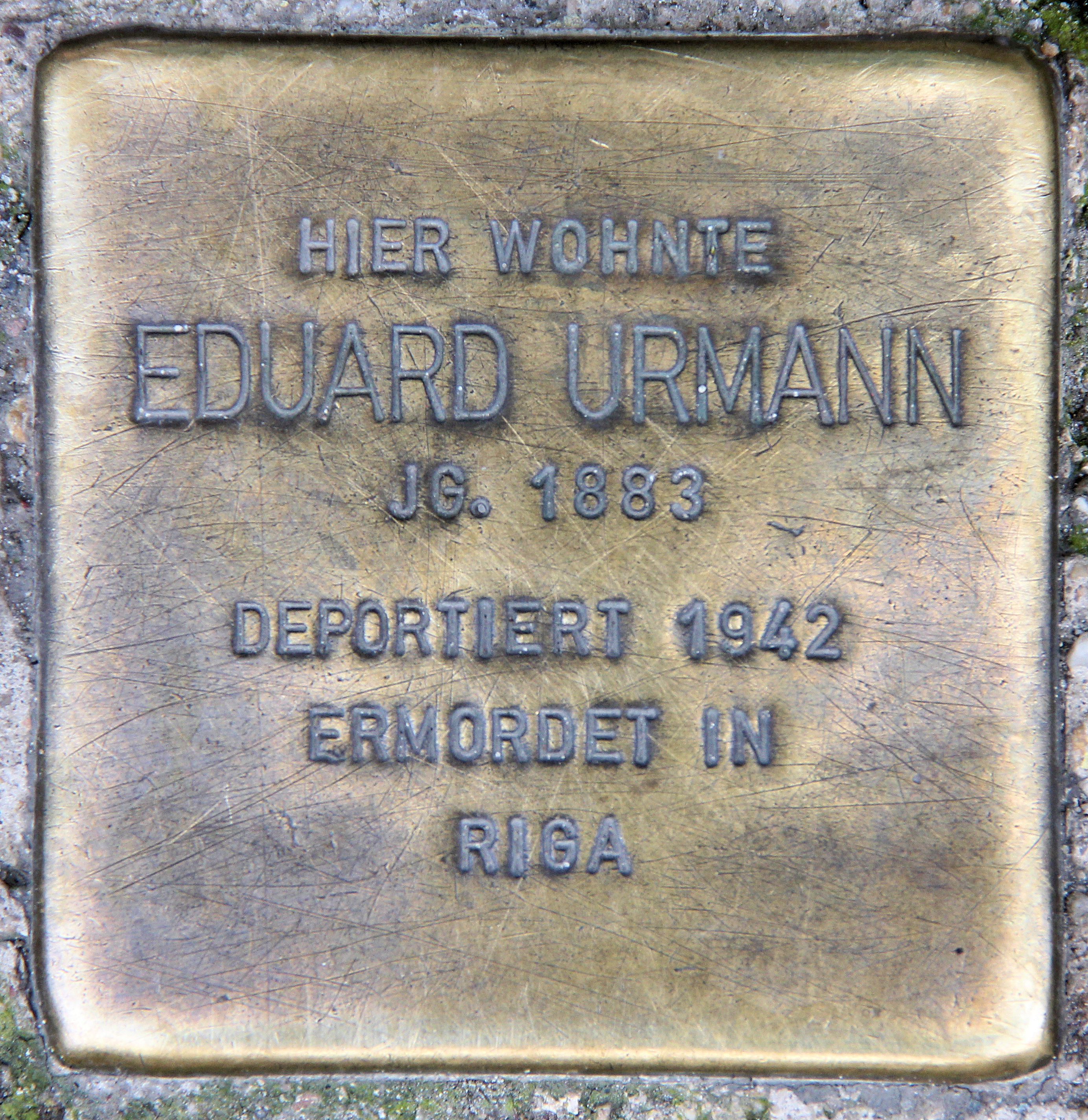 "Stolperstein" (stumbling block), Eduard Urmann, Kolonnenstraße 10-11, Berlin-Schöneberg, Germany